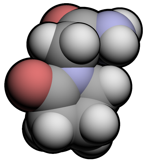 Molecular spacefill of Piracetam